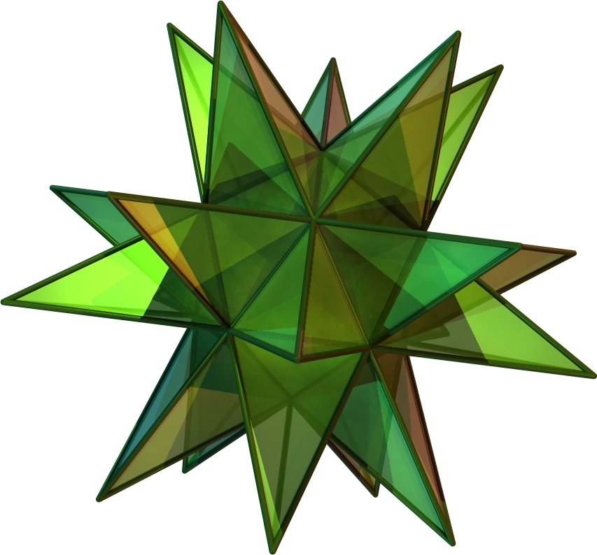 Great stellated dodecahedron, rendered with POVRay This image was created with POV-Ray.